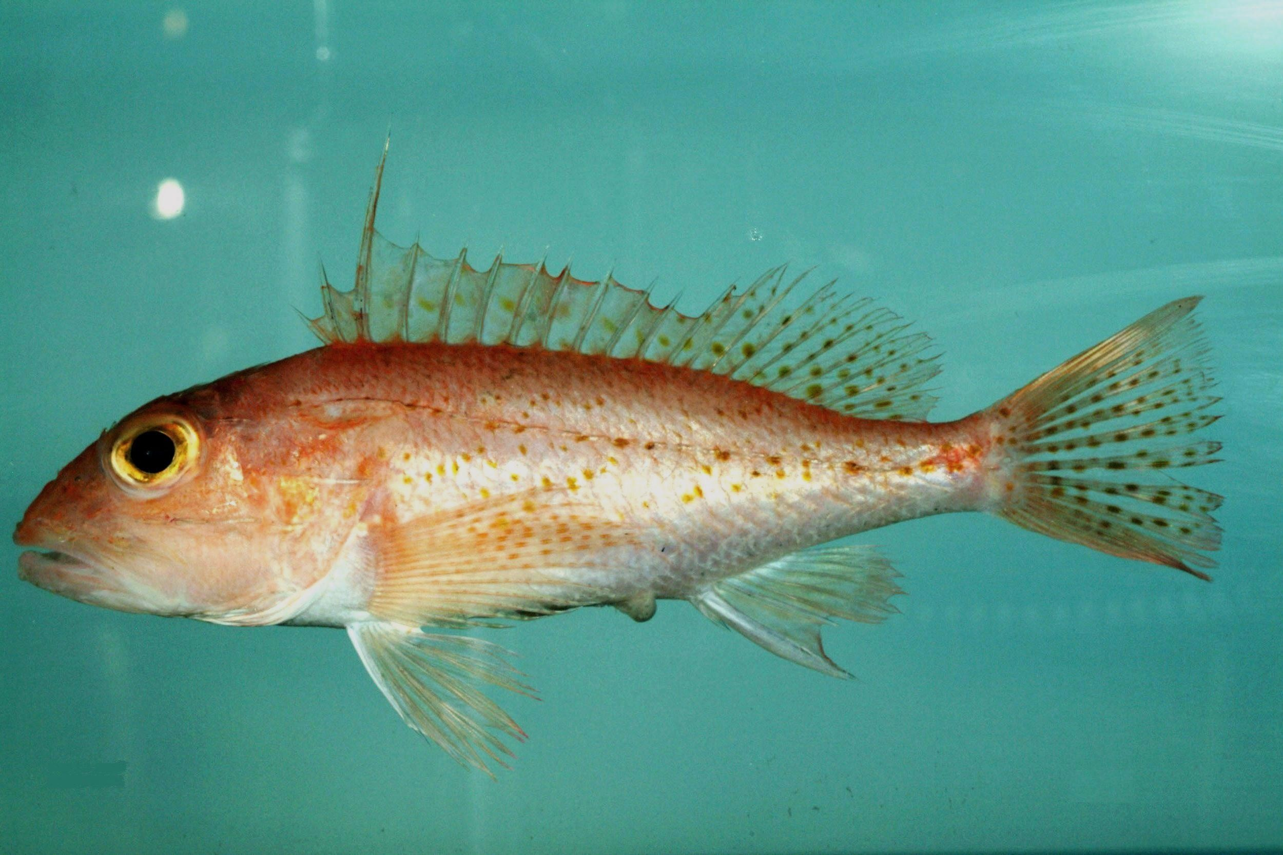 Longspine scorpionfish ( Pontinus longispinis ). Gulf of Mexico.